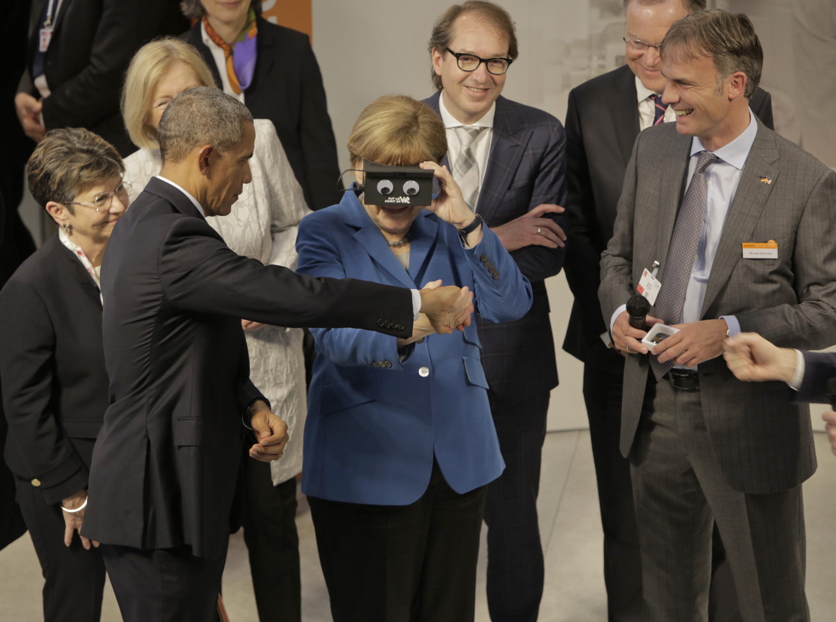 Visit of Barack Obama and Angela Merkel at the ifm booth at Hanover Fair 2016